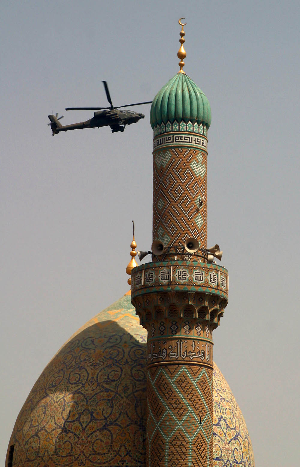 An American military helicopter flies by a mosque in Baghdad, Iraq.